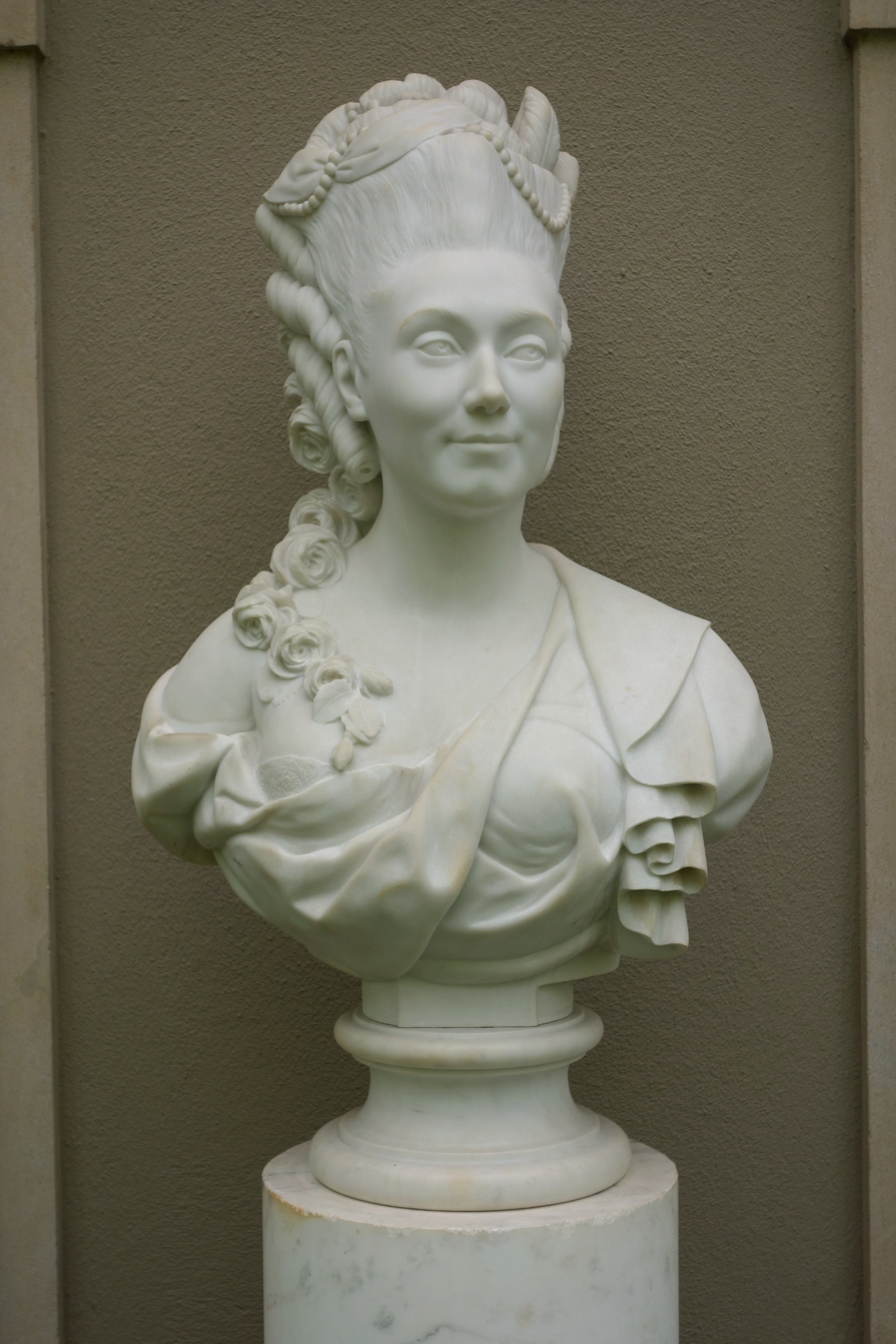 bit in the Winterthur Museum, New Castle County, Delaware, USA. This work is in the public domain because the artist died more than 70 years ago.